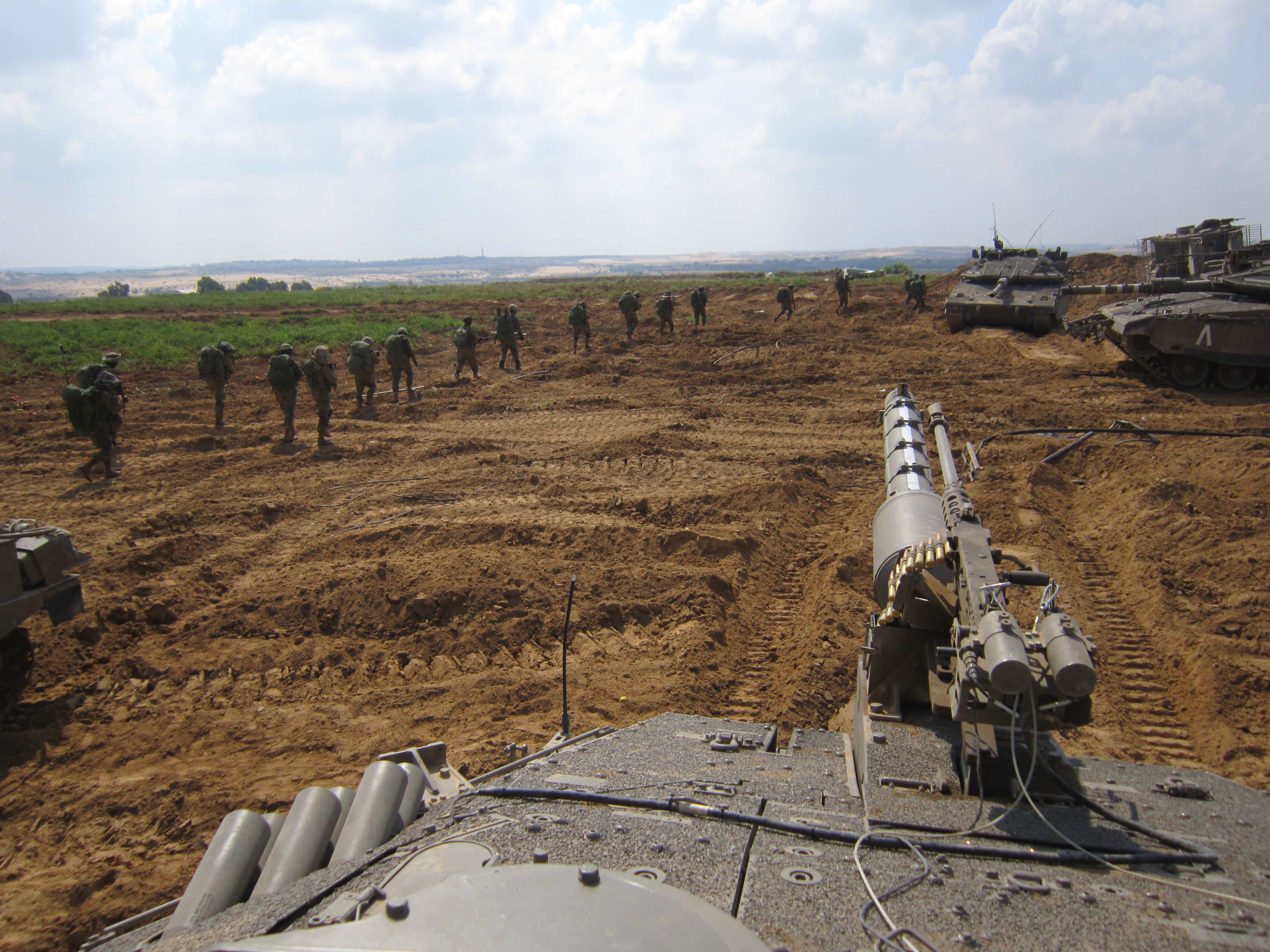 The 401 armored Brigade operates near the Gaza border, 27/7/2014 For more updates: The Israel Defense Forces Facebook The Israel Defense Forces blog Follow us on Twitter